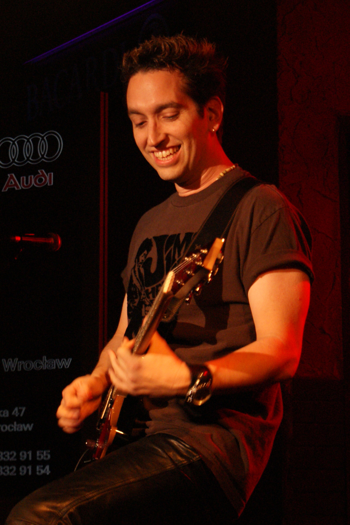 Neil Zaza with F3 Tour. Alibi Club, Wroclaw, Poland (Nov 9. 2008).